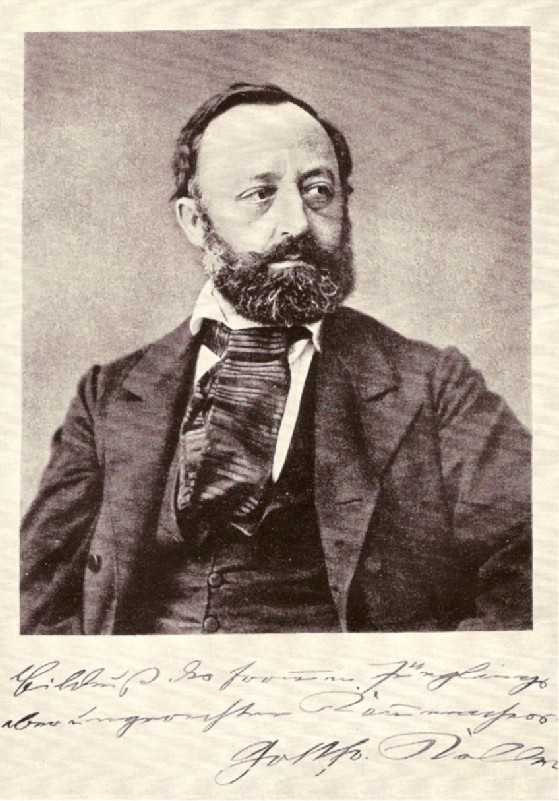 Photo of Gottfried Keller with a dedication to Marie von Frisch